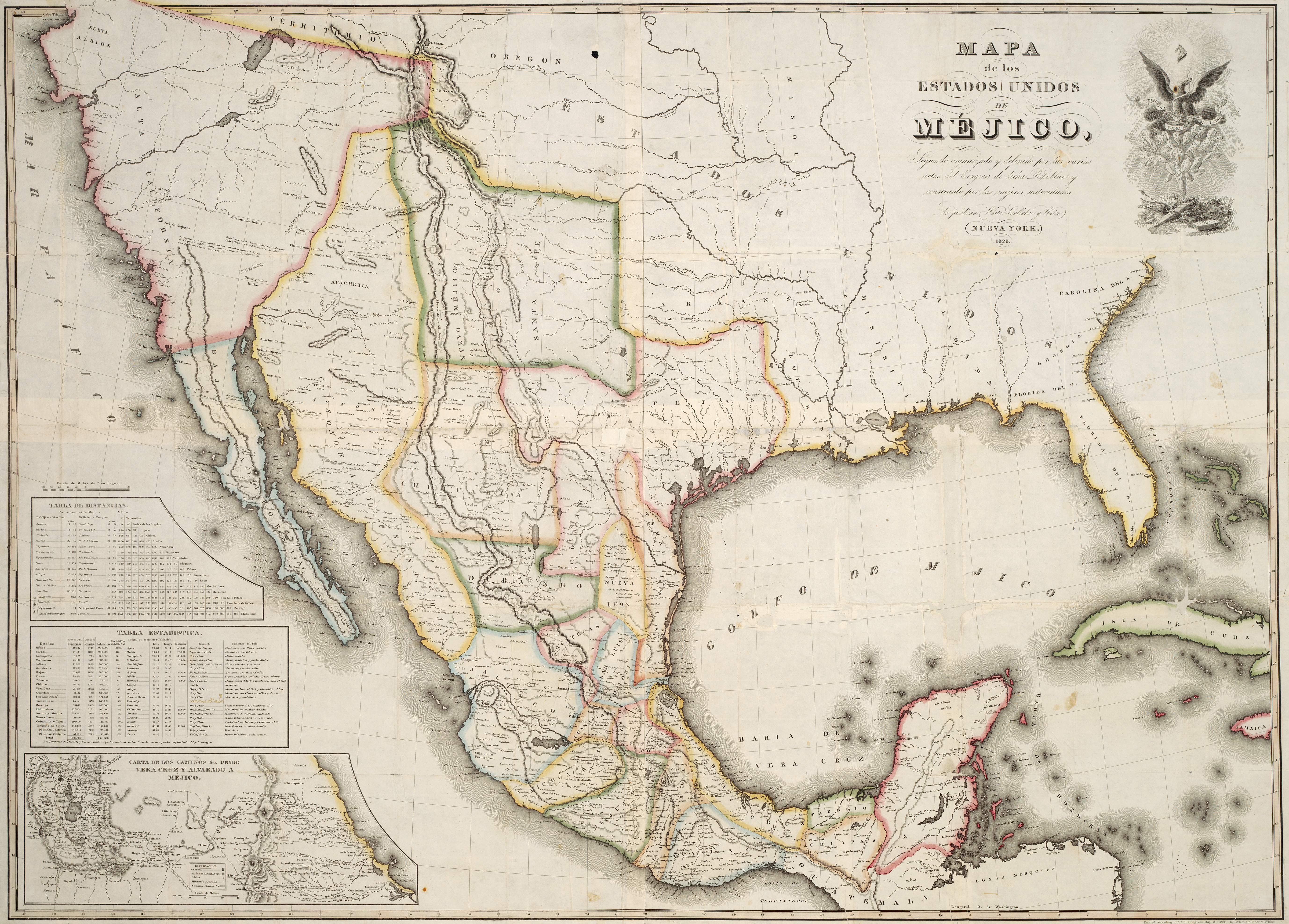 On May 21, 1828, less than a month after the new agreement between the U.S. and Mexico, the New York publishing firm of White, Gallaher and White issued this Spanish-language map of Mexico printed by the engraving firm of Vistus Balch and Samuel Stiles. The map simply copied and translated into Spanish Henry S. Tanner's Map of the United States of Mexico, which in turn was based on the southwest portion of Tanner's Map of North America of 1822. In addition to the 1828 edition, White, Gallaher and White's map was issued again sixteen years later, in 1844, to coincide with the growing interest in Texas annexation. The next year, 1845, New York publisher John Disturnell acquired the copper plates and began issuing his own version of the map (without credit to White, Gallaher and White). Disturnell's 1847 edition of this map was later used by both sides in negotiating the 1848 Treaty of Guadalupe Hidalgo that ended the U.S. War with Mexico.